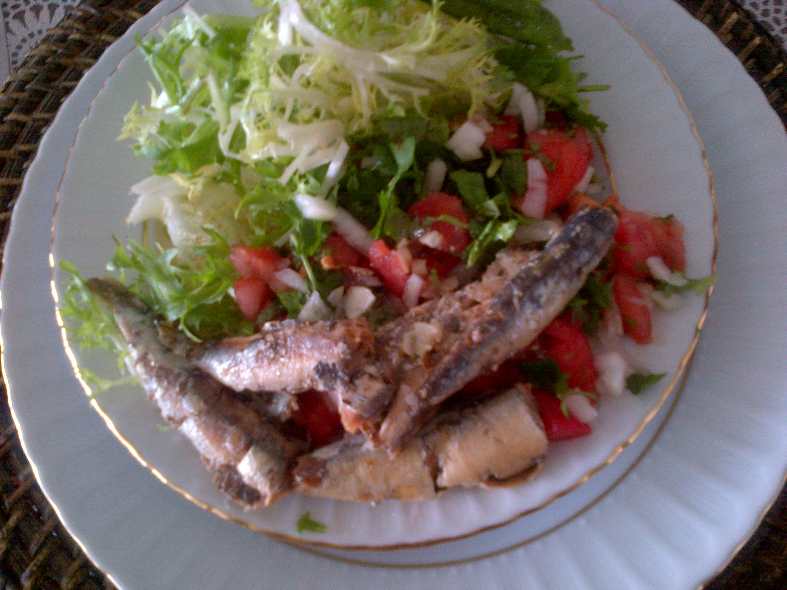 Sardalya salatası, with "radika", from Turkey.